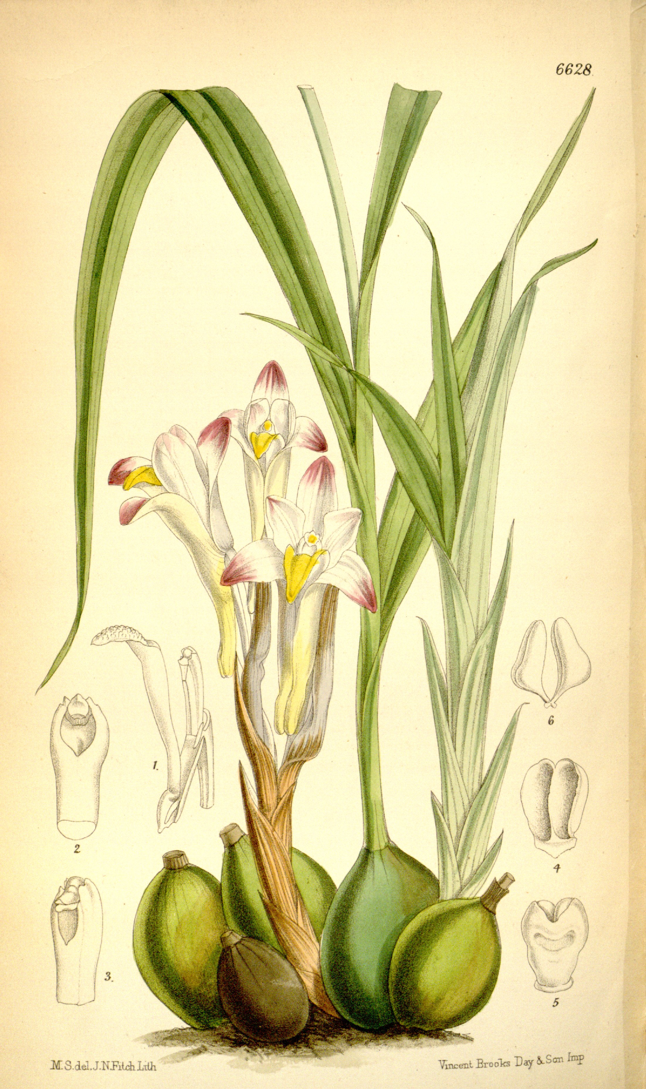 Illustration of Coelia bella